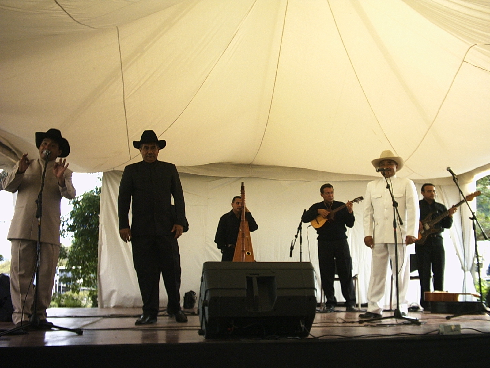 Interpretation of Joropo. Taken in a public presentation of Vidal Colmenares, Caracas, Venezuela.